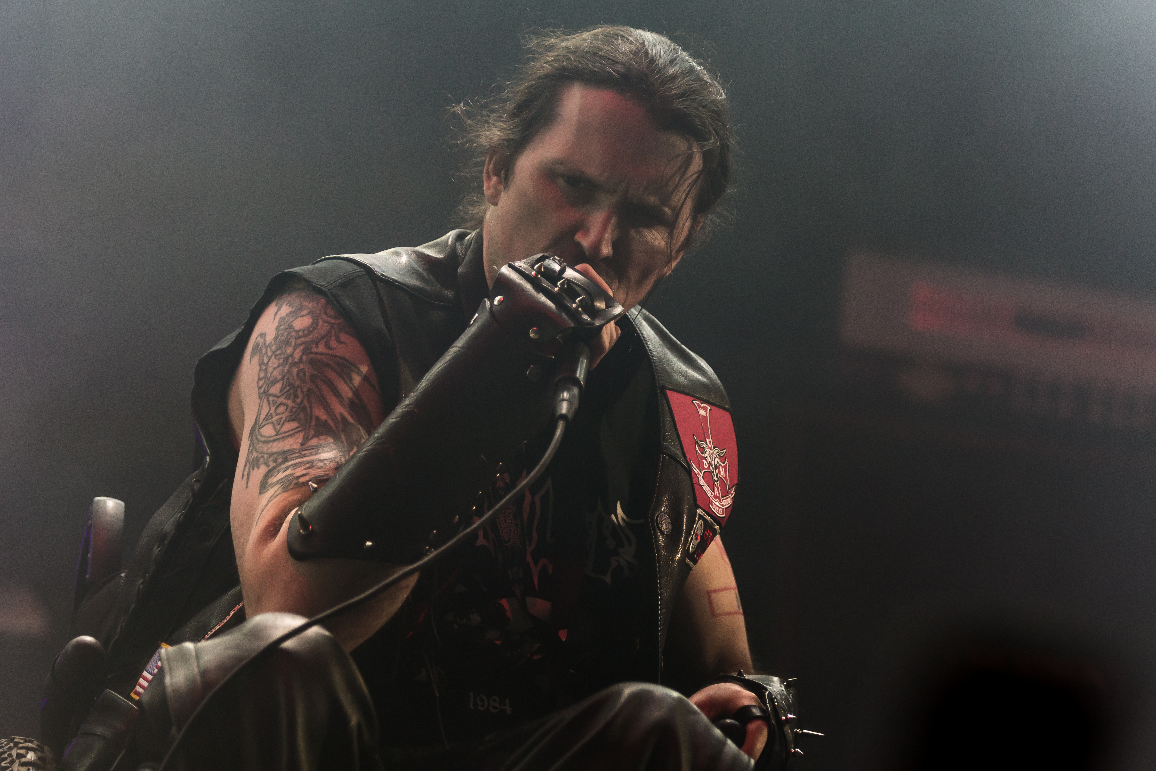 The American death metal band Possessed at the Party.San Metal Open Air 2017 in Obermehler-Schlotheim/Germany.